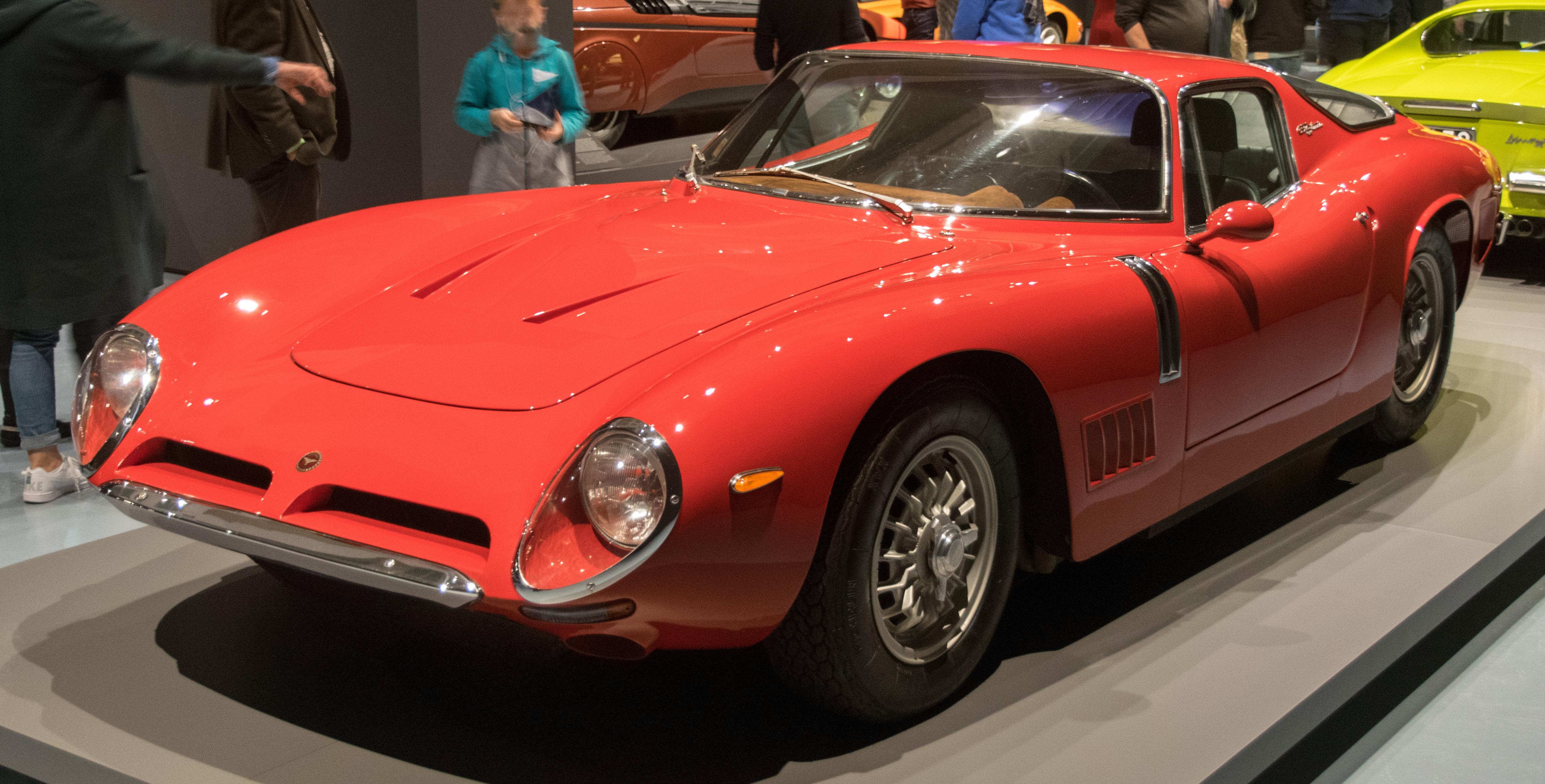 Bizzarrini GT Strada 5300 (1968) at the Exhibition "PS: Ich liebe Dich" in the Museum Kunstpalast Düsseldorf